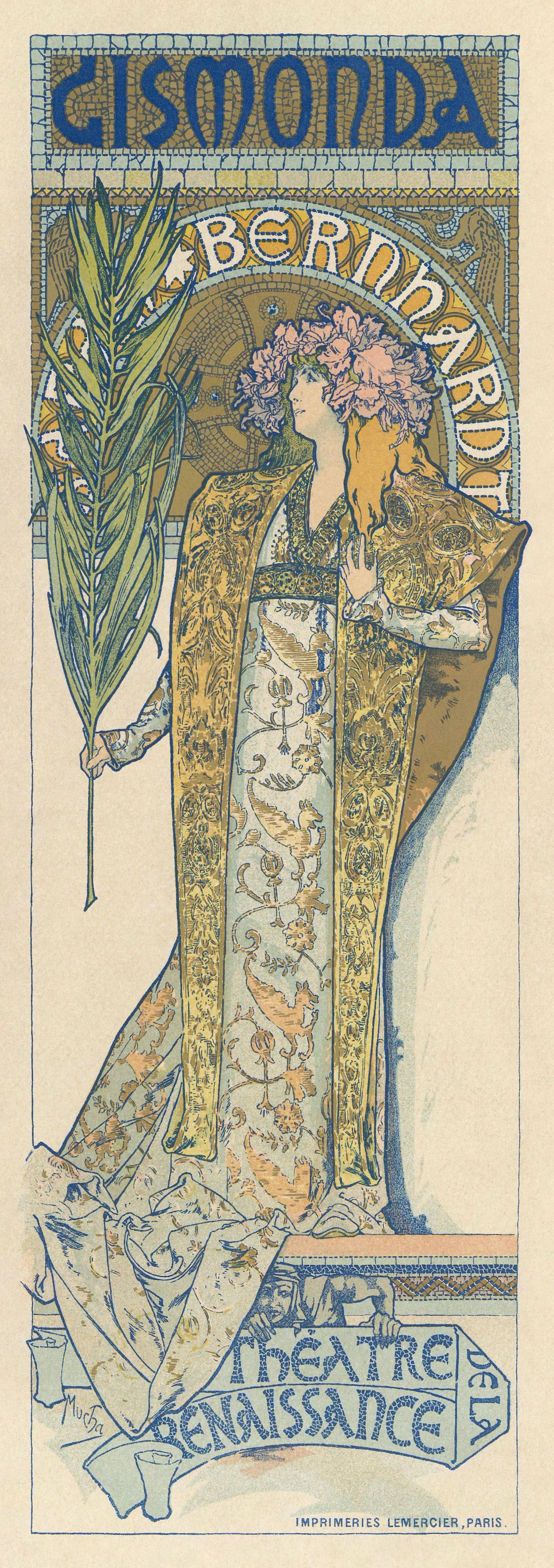 Poster for the première production of Victorien Sardou's Gismonda starring Sarah Bernhardt at the Théâtre de la Renaissance in Paris.[1] Plate 27 from "Les Maîtres de l'Affiche", Imprimerie Chaix (Encres Lorilleux & Cie).